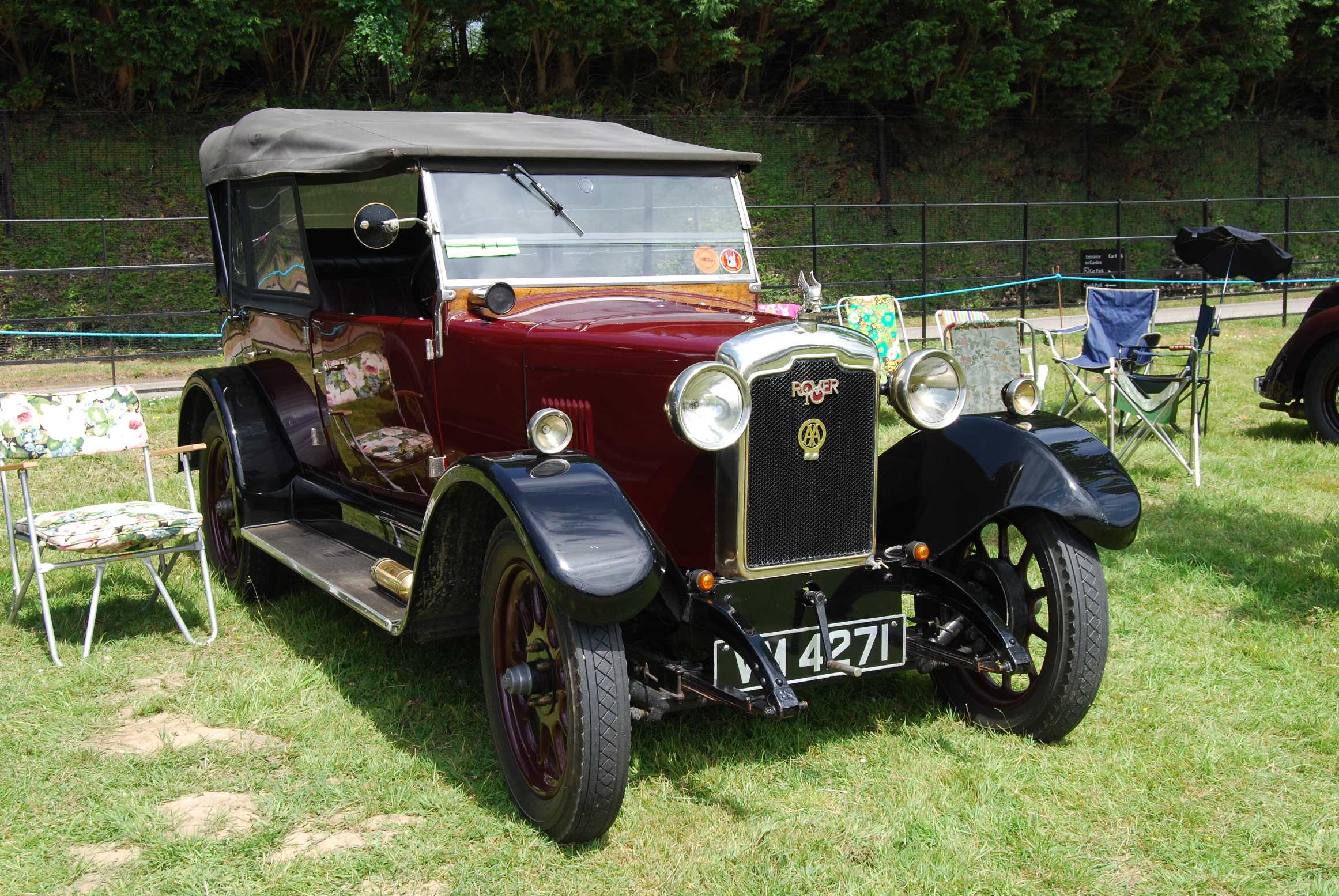 1928 Rover 10/25 4-door open tourer SE Rover Rally 2010 joint display by the Rover Sports Register and P5 club.